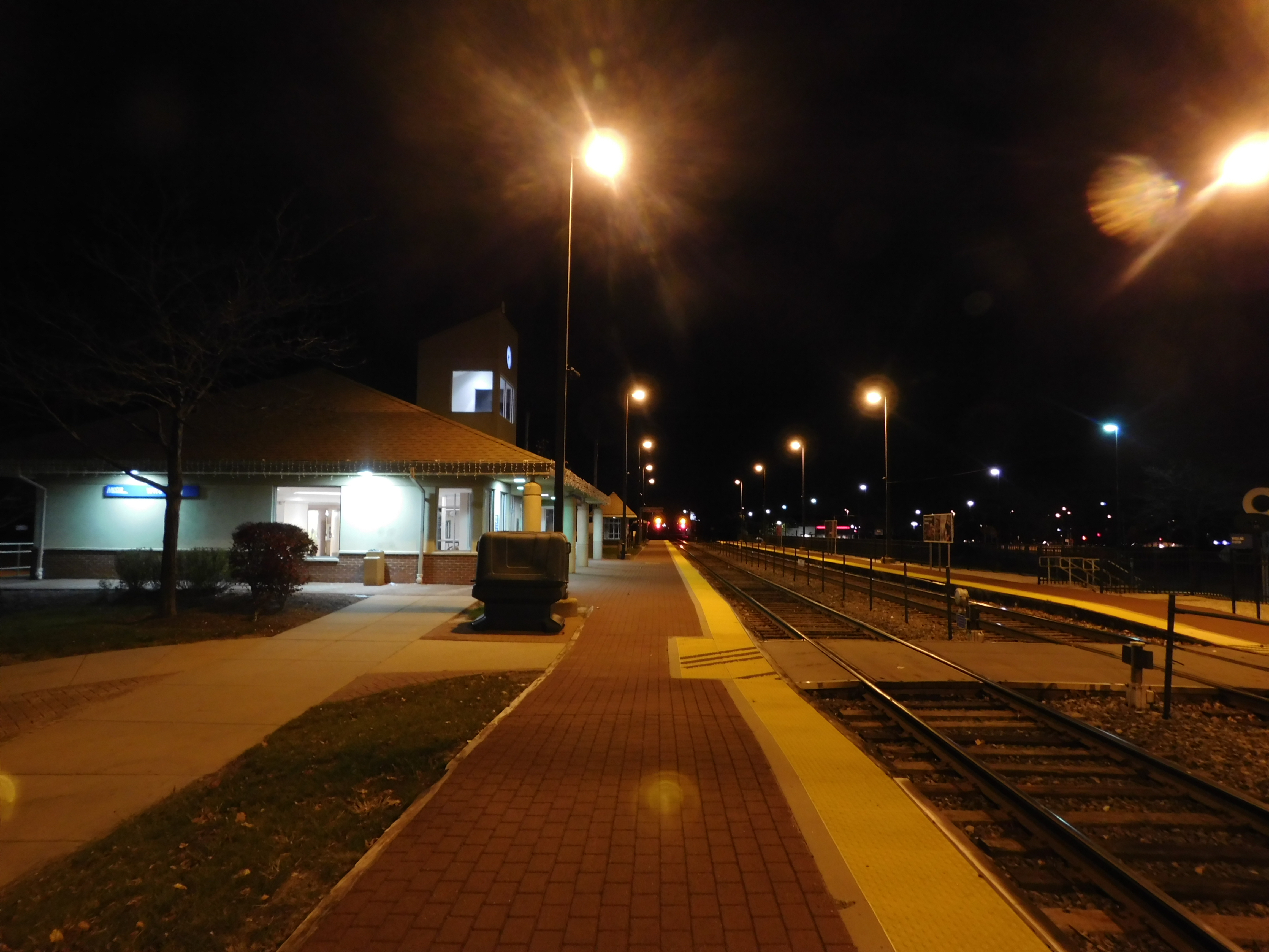 The Wheeling station for Metra's North Central Service.